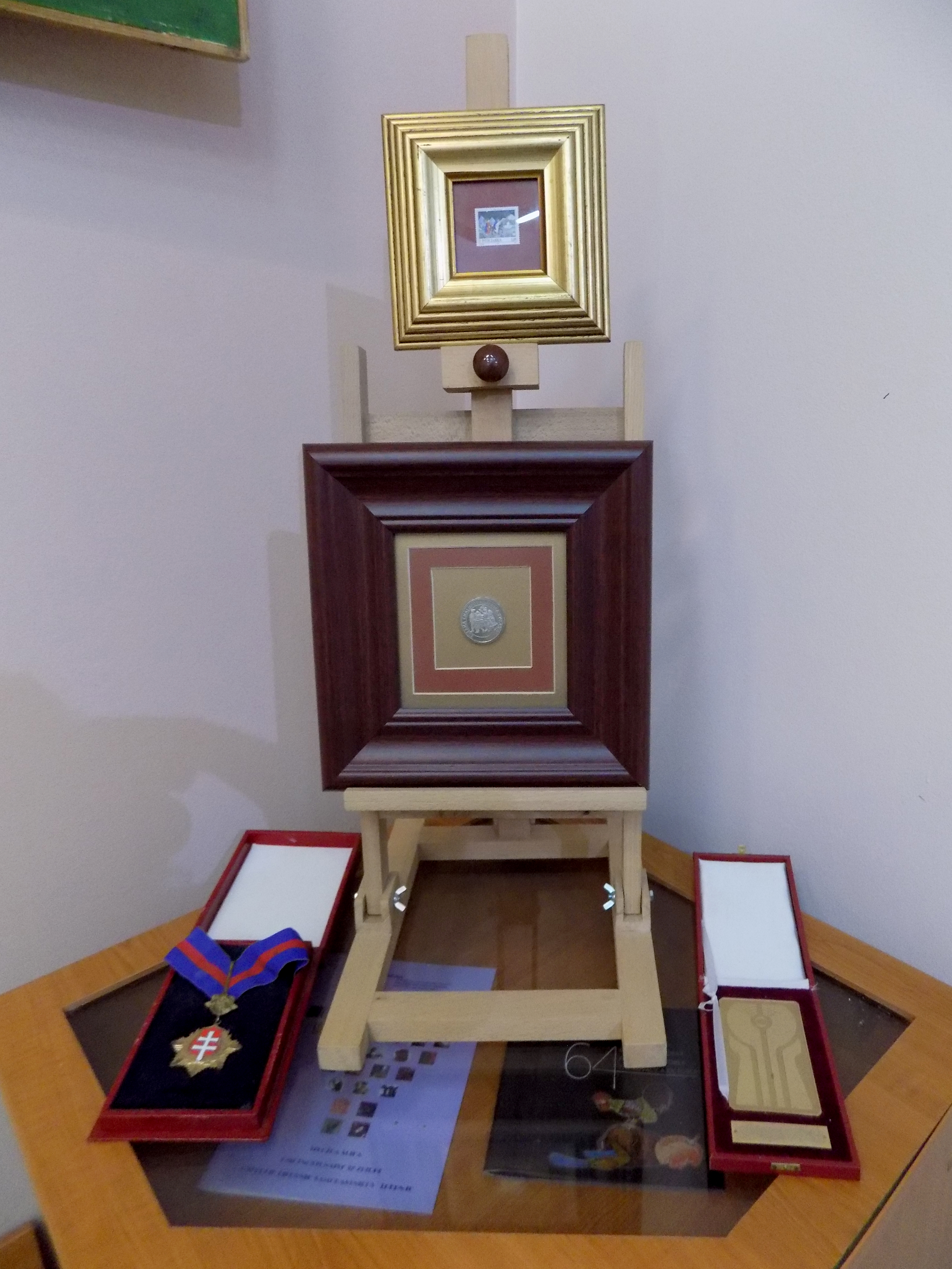 Zuzana Chalupová's confessions in a space dedicated to her character and work in the Gallery of Naive Art in Kovačica